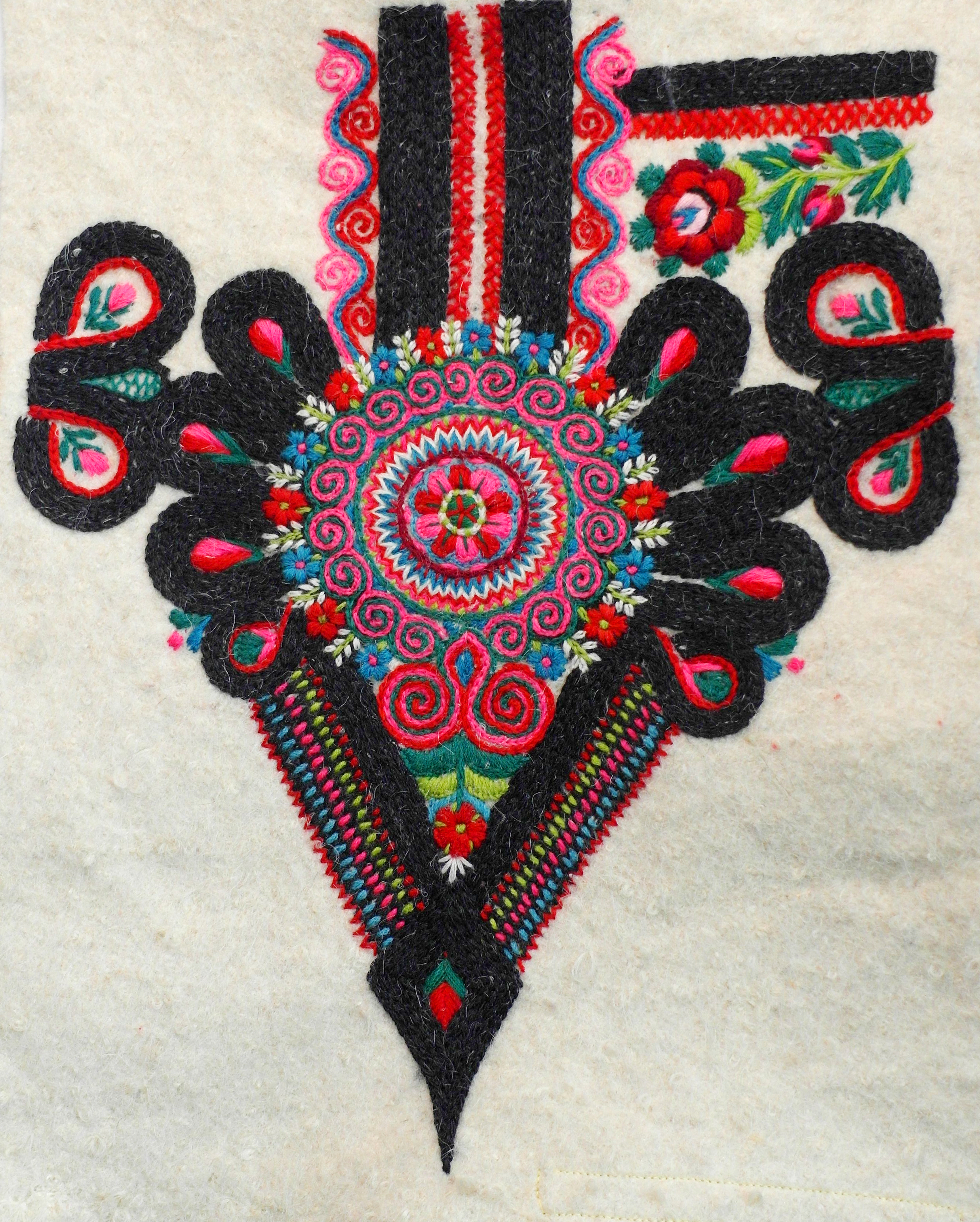 Parzenica embellishment, Podhale